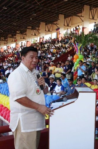 Cropped from this original upload.